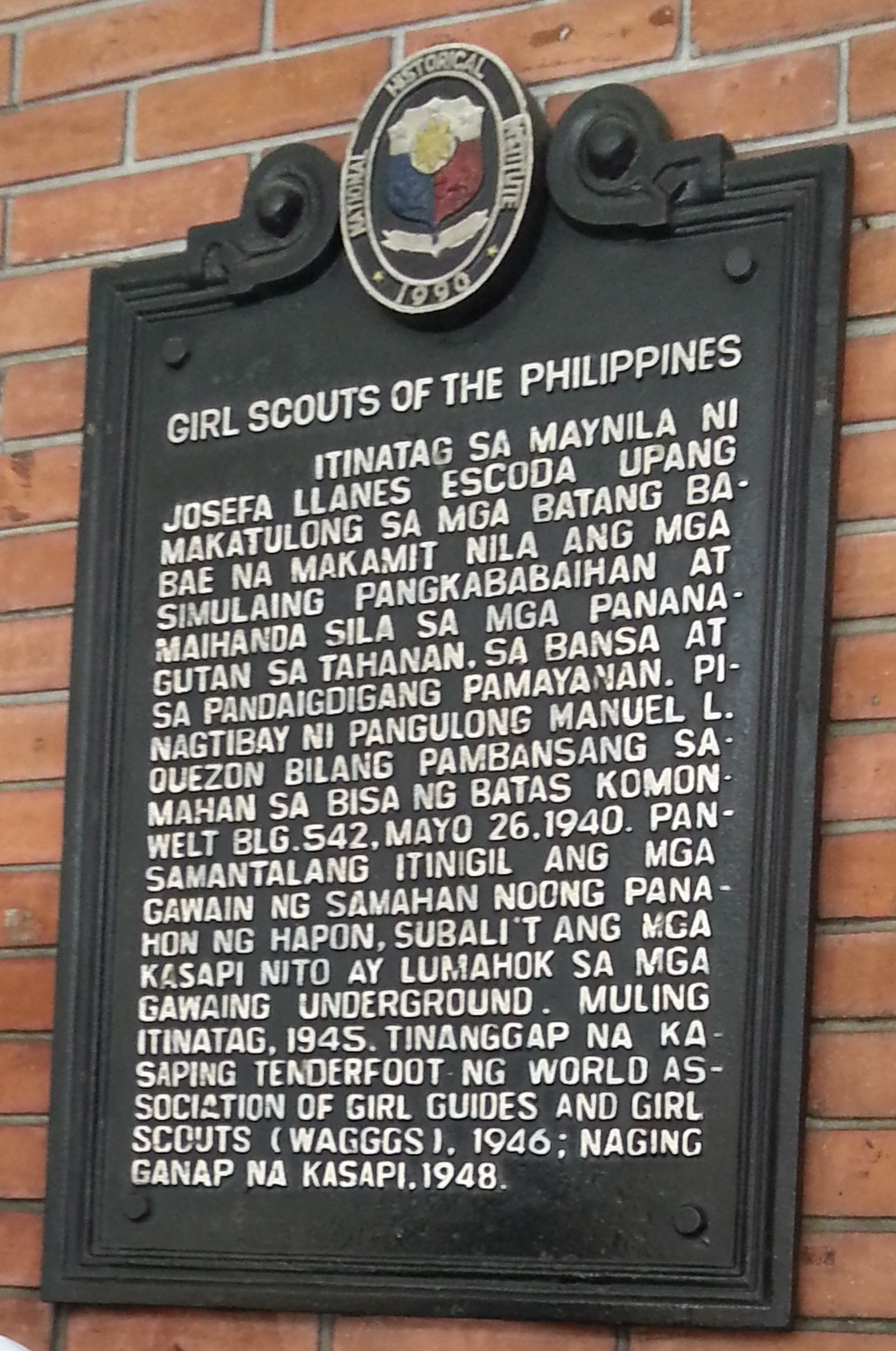 Historical Marker